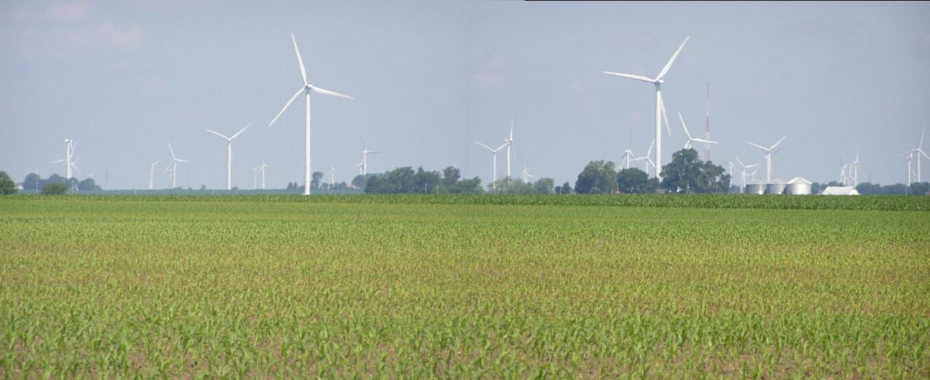 Meadow Lake Wind Farm from Indiana 43 in White County